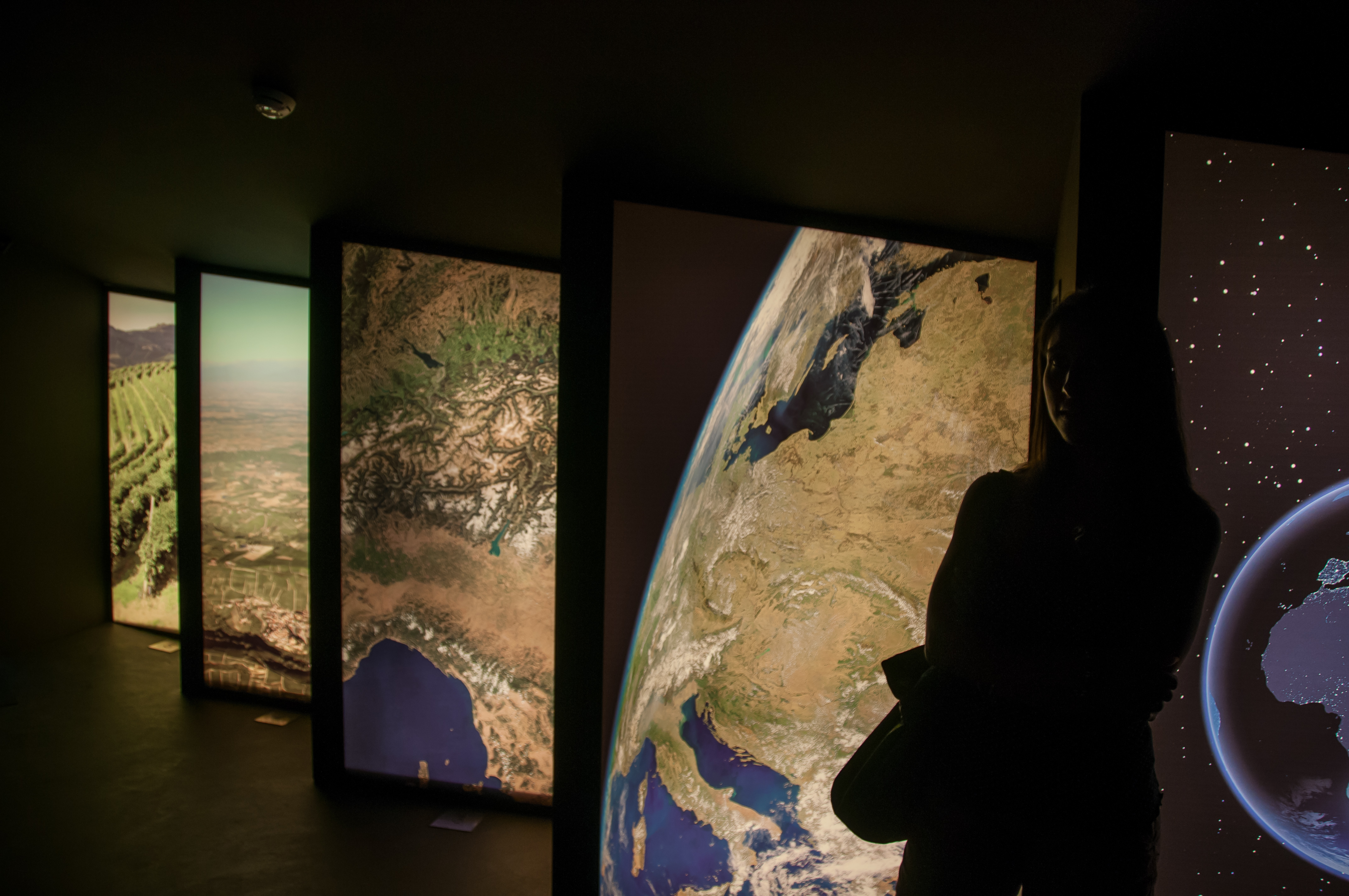 Artistic view : Interior of the wine museum (WiMu) in Barolo - Italy